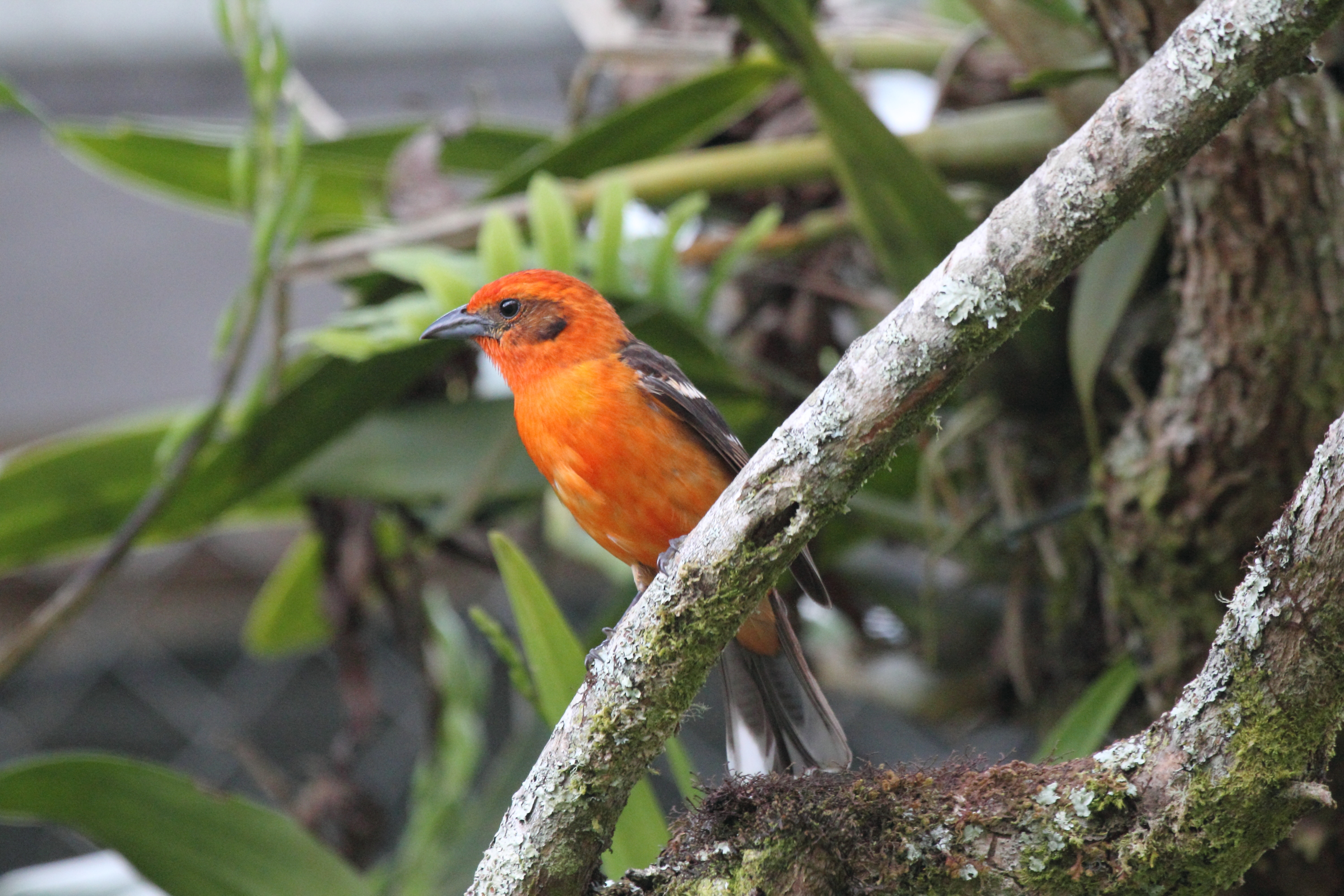 Photographed at Savegre, in Costa Rica.